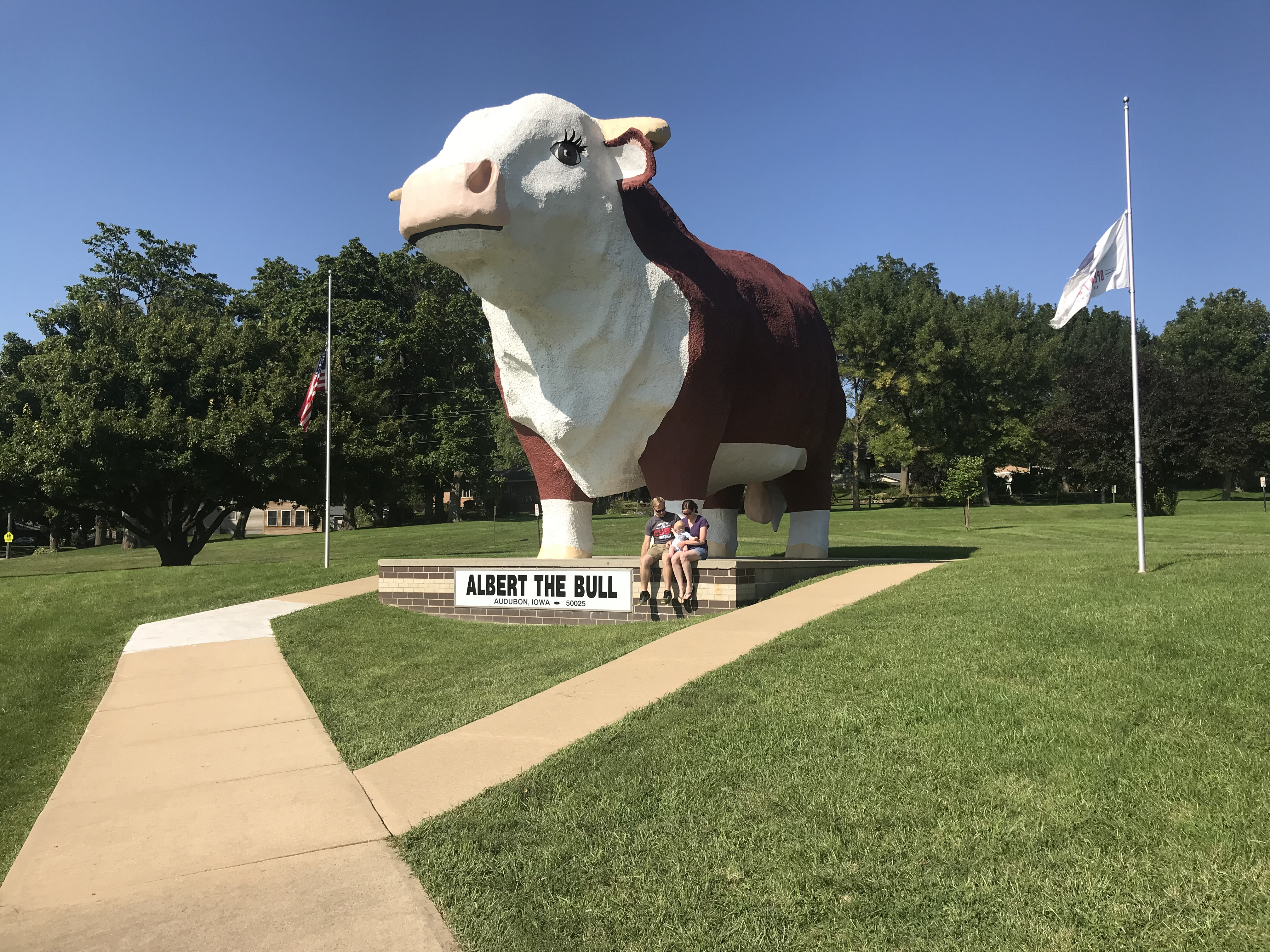 Audubon Jaycee’s monument to the Iowa Beef Industry